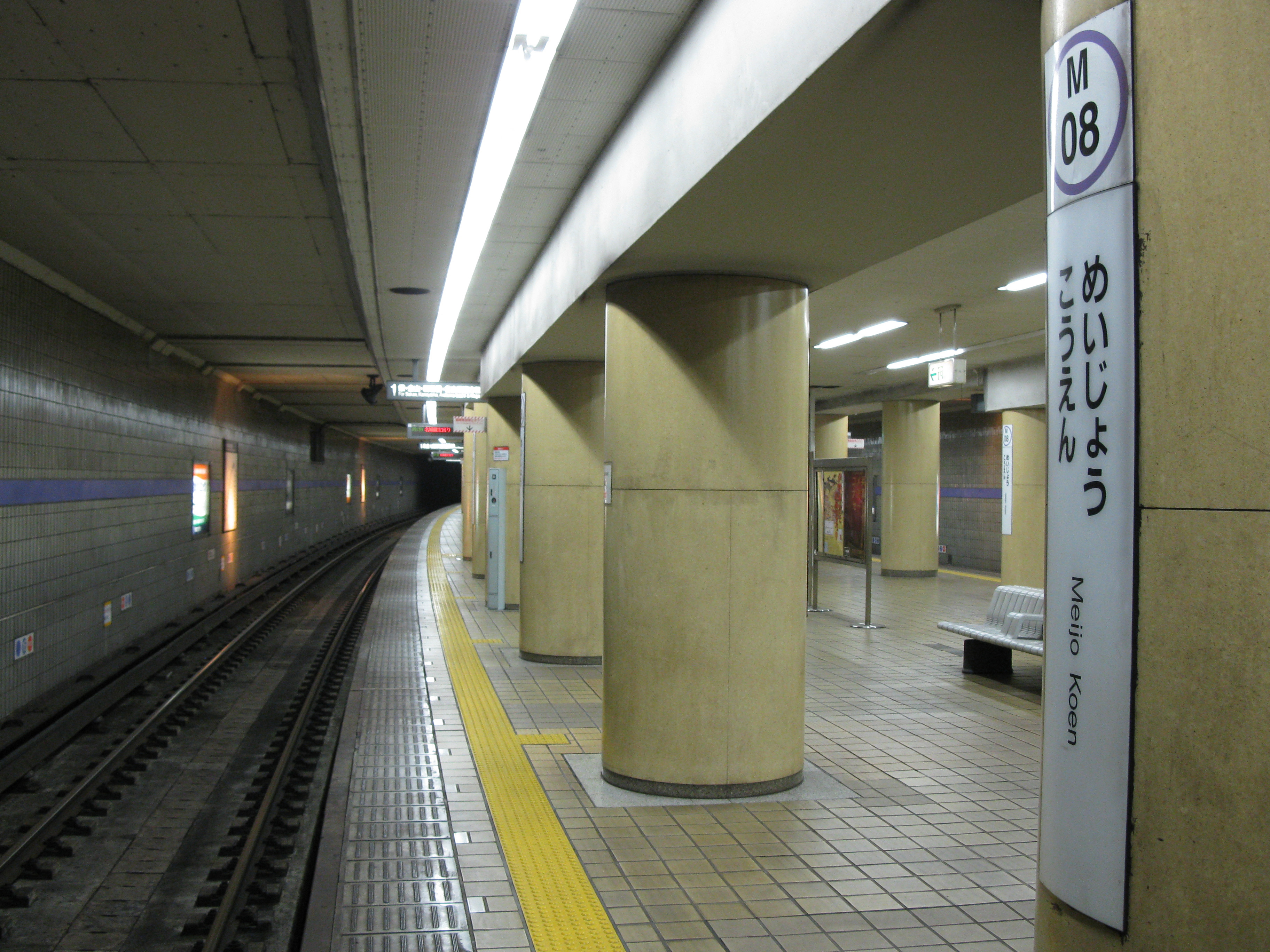 Meijō Kōen Station platform (Nagoya Municipal Subway Meijō Line)